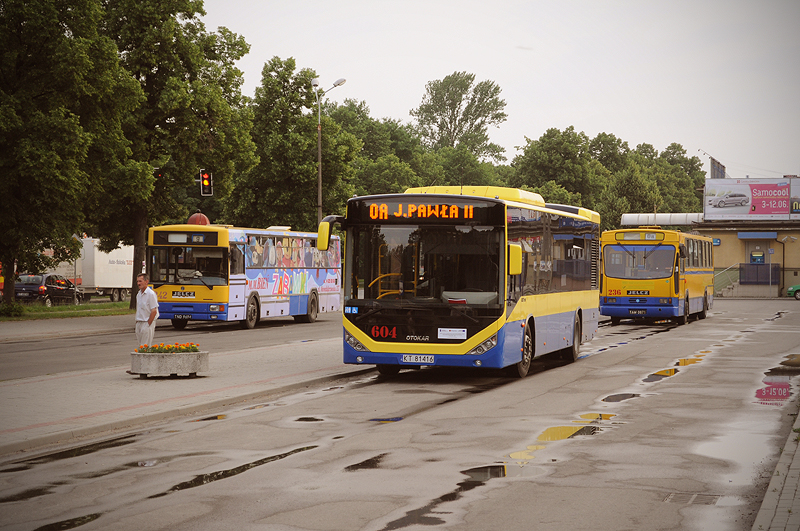 Bus station in Mościce, Tarnów, Poland. Otokar Kent 290LF bus (built 2011, #604) and two Jelcz buses: Jelcz 120M CNG (built 1995, #236, CNG from 2007); Jelcz 120MM/1 (built 1997, #242).